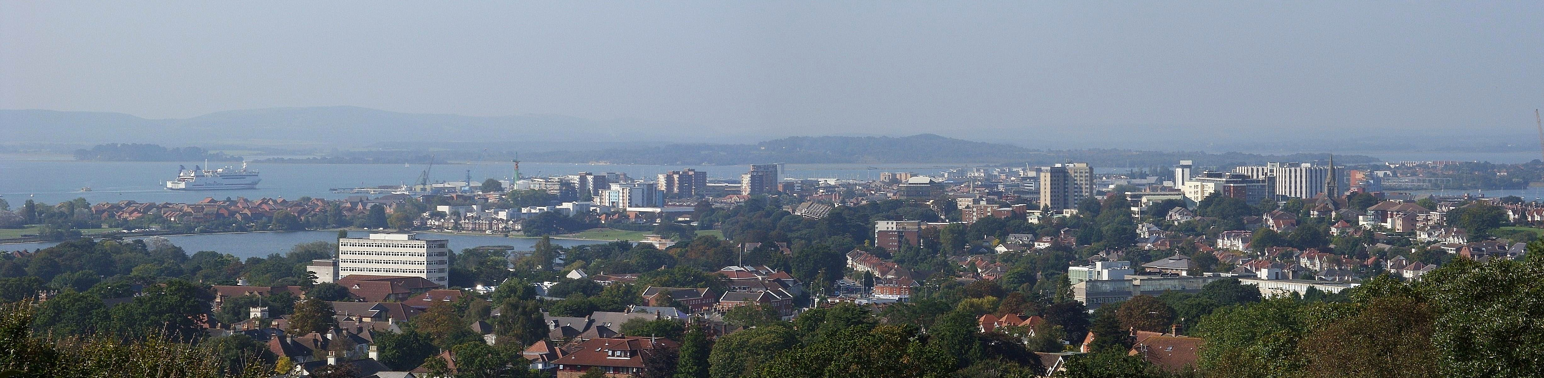 A panoramic view of Poole town centre viewed from Parkstone